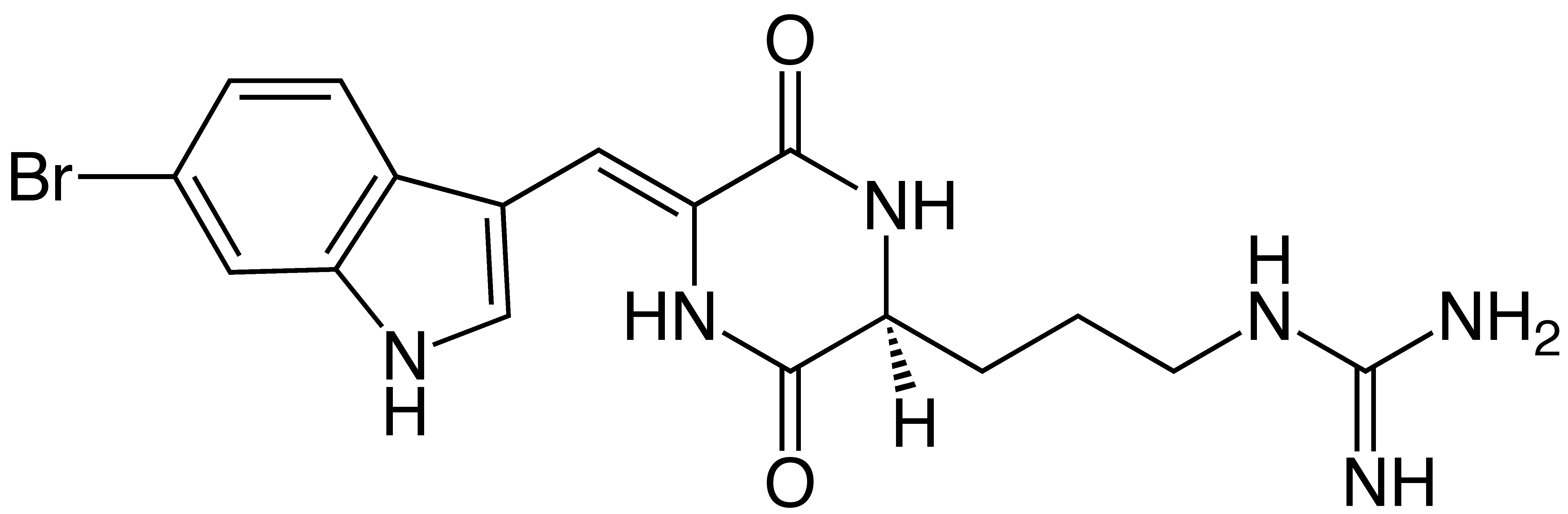 Barettin_Structural_Formula